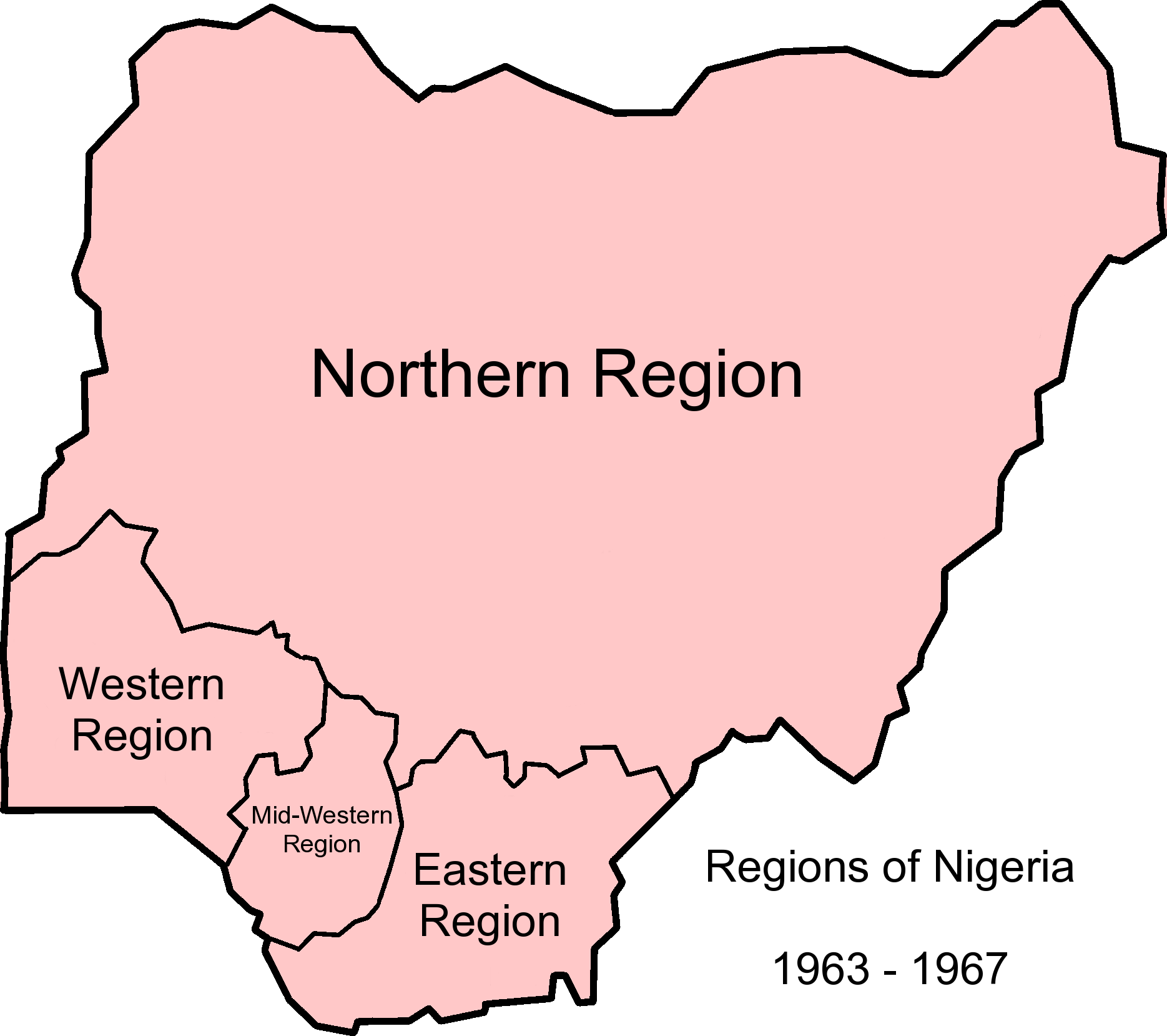 Map of Nigerian regions, 1963-1967. Info from and